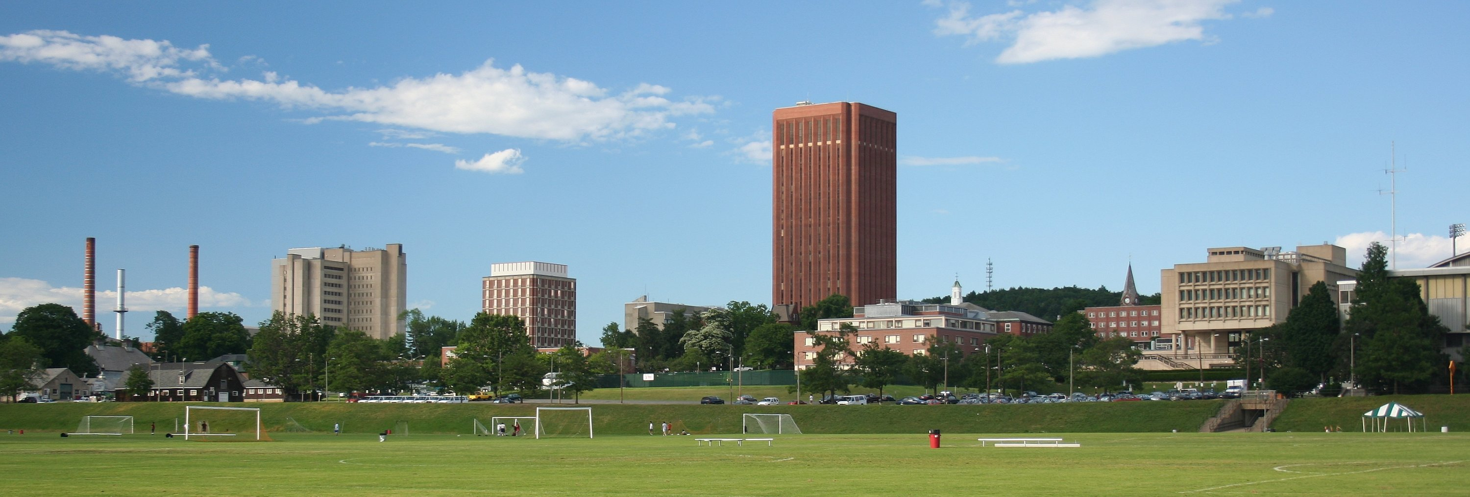 University of Massachusetts Amherst, 2005. View from the South Athletic Fields. Submitted by photographer. --Eraboin 01:13, 10 September 2005 (UTC)